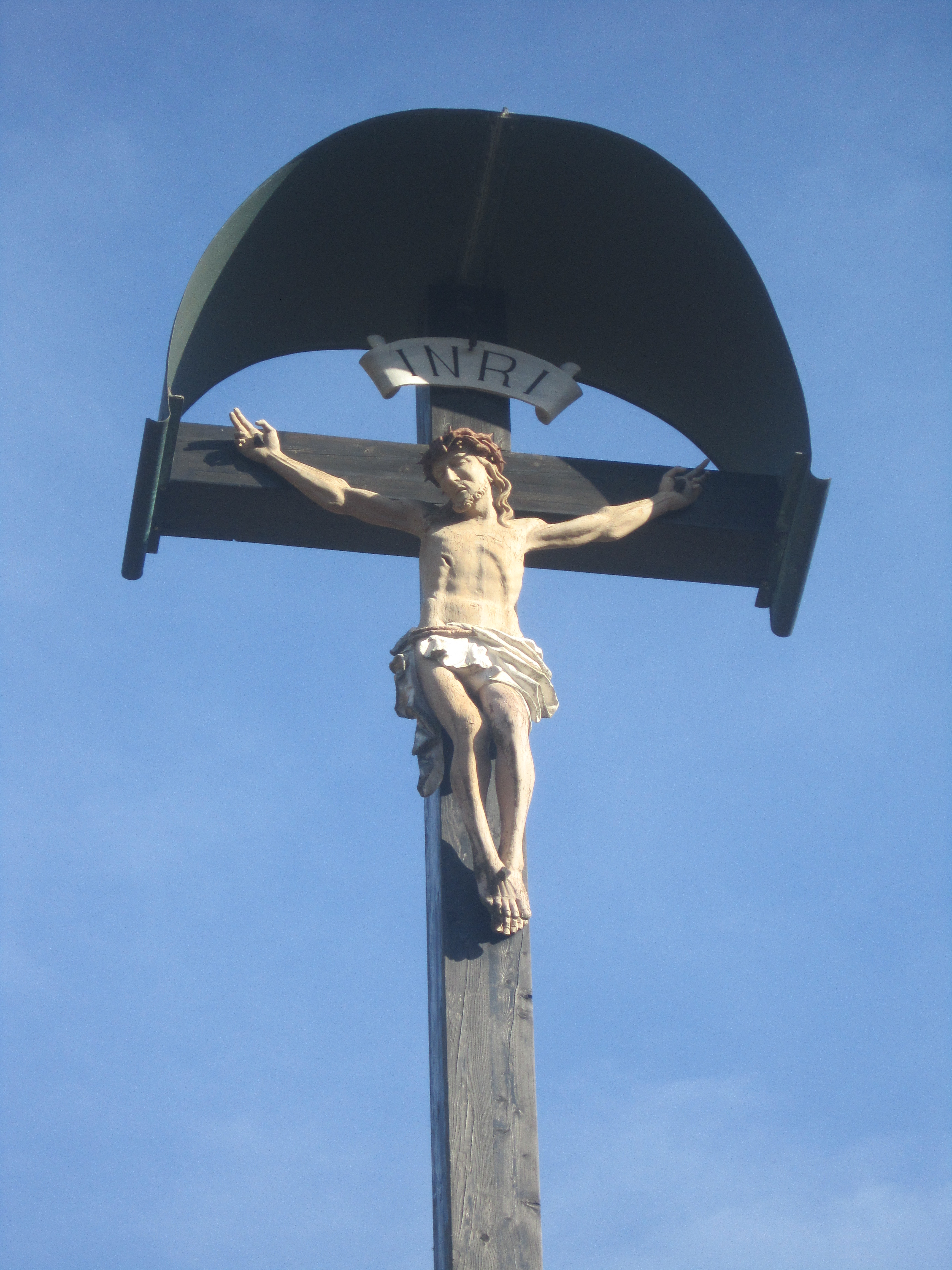 Wayside shrine in Münnerstadt, a German town in Lower Franconia (Bavaria).